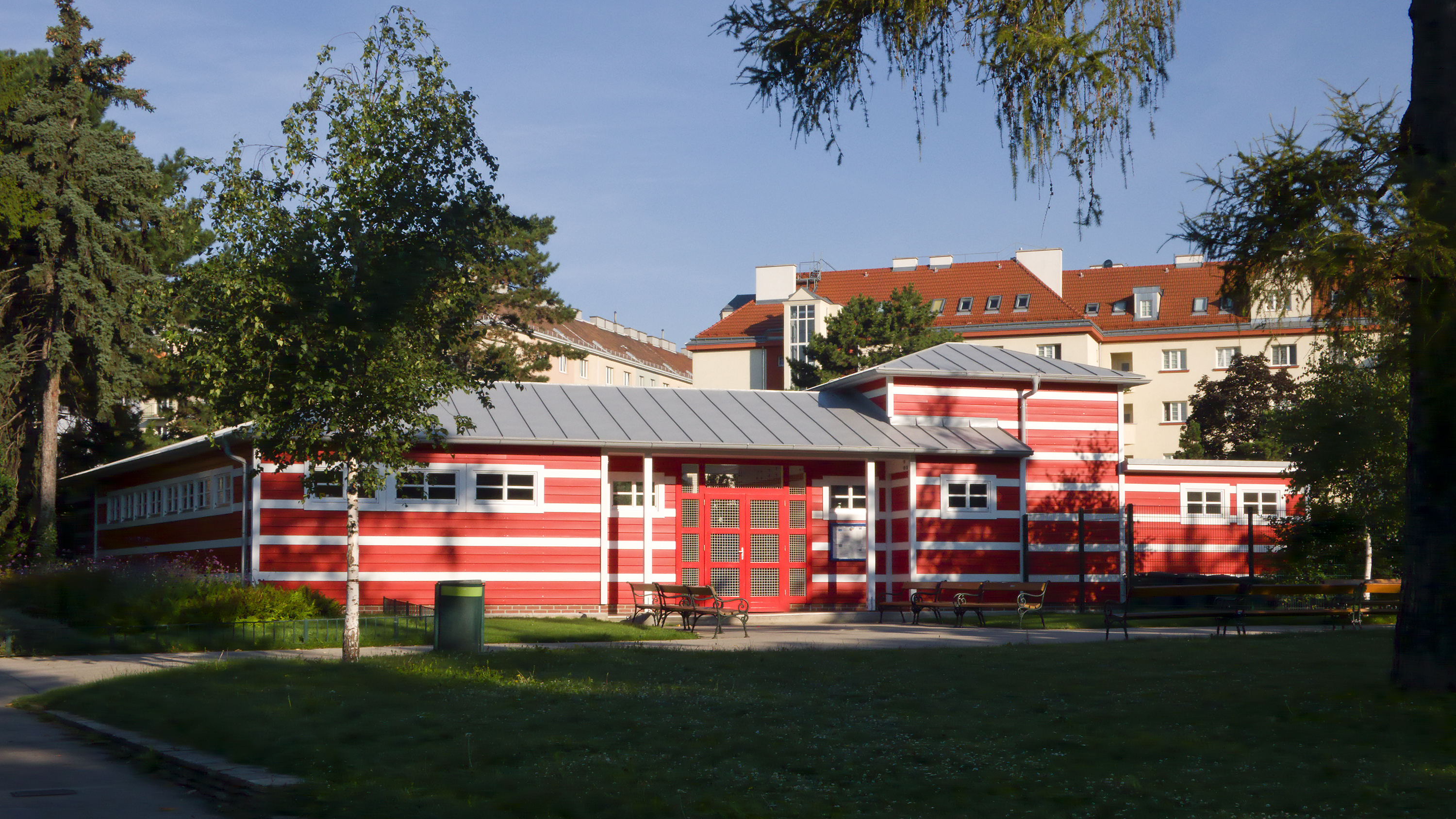 Public park Herderpark in Vienna Simmering